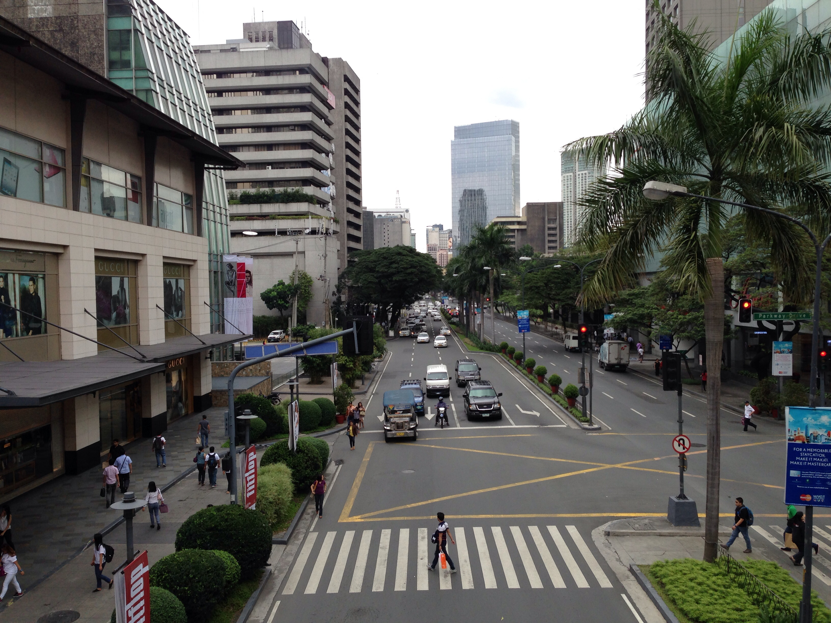 The local high street of Makati CBD, Manila, Philippines